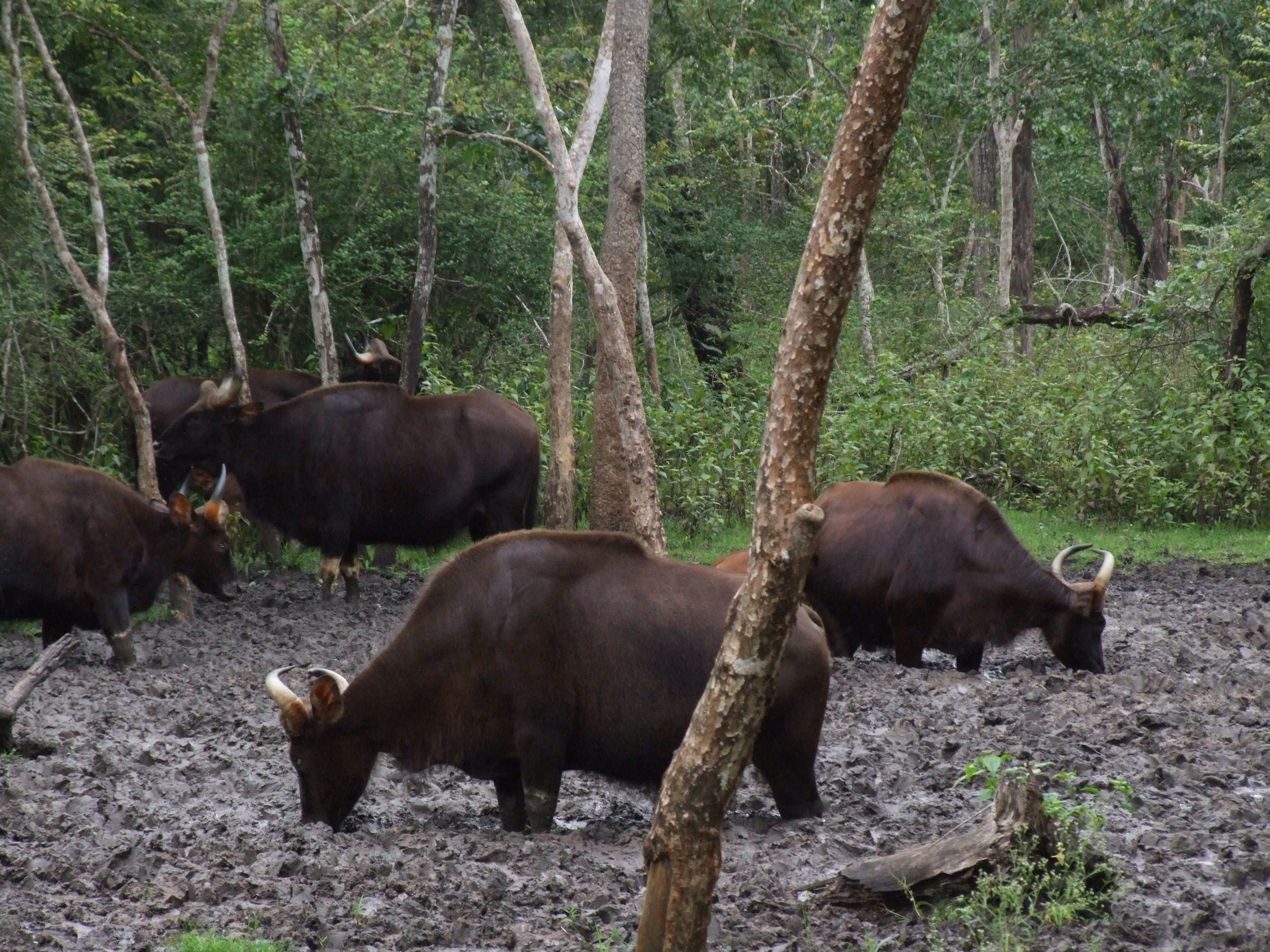 Herd of wild Indian bison (Bos gaurus) at a salt lick; shot in the Rajiv Gandhi National park in Kabini.